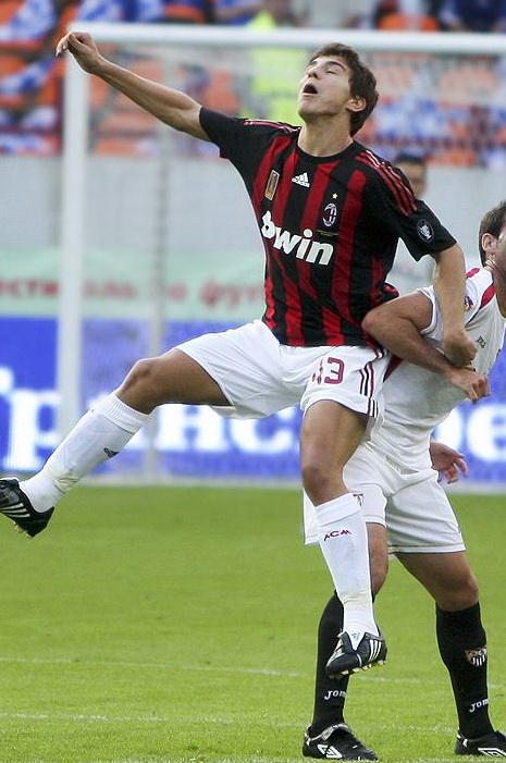 Alberto Paloschi